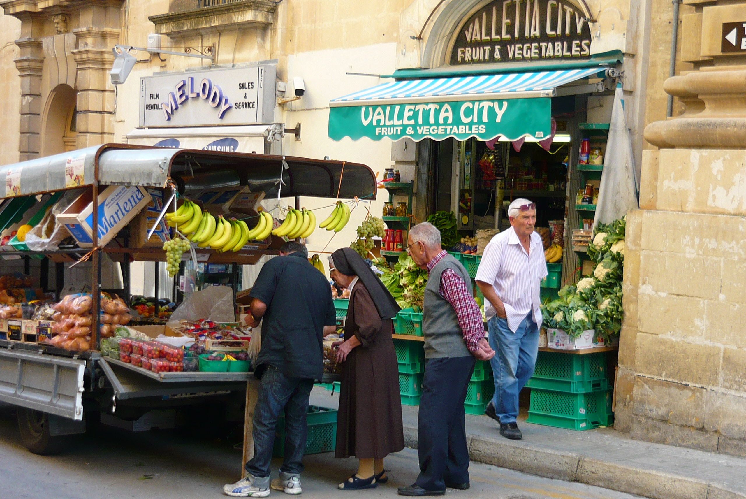 Shops in Malta ar often also on the street